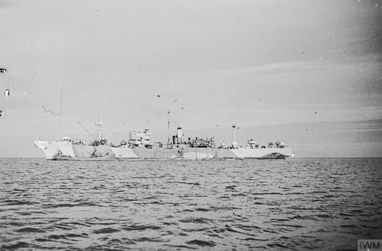 Later pipelines: HMS LATIMER, a freighter specially adapted to lay cross channel pipelines.